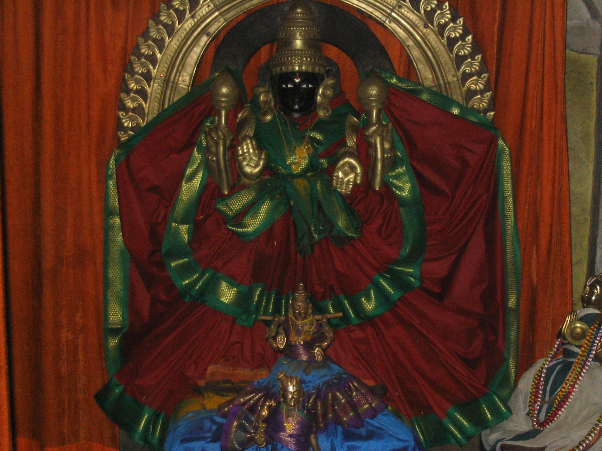 Photo of the main deity at the Bindignavile temple